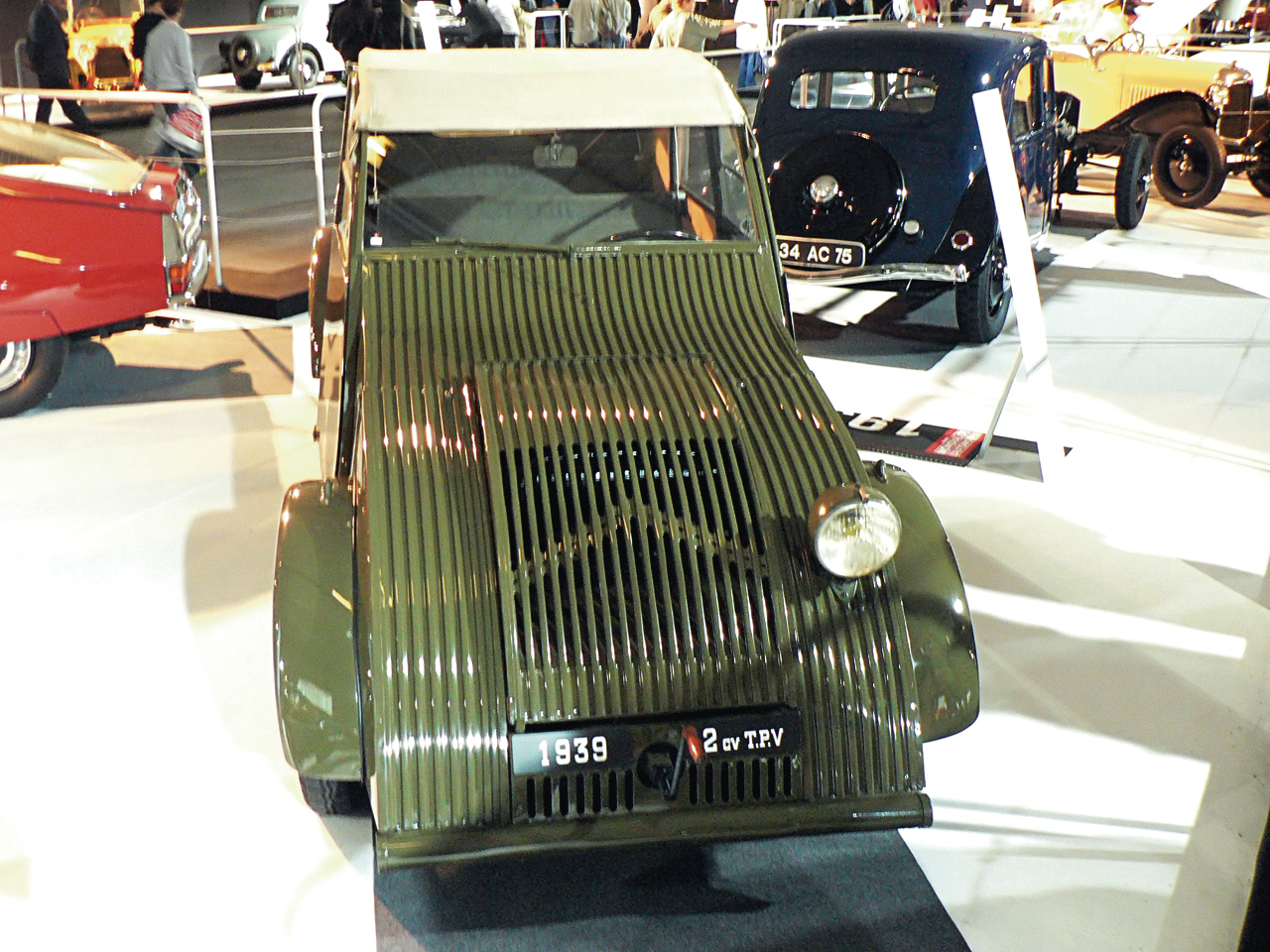 Summary Mondial de l automobile de Paris (October 2006) Licensing